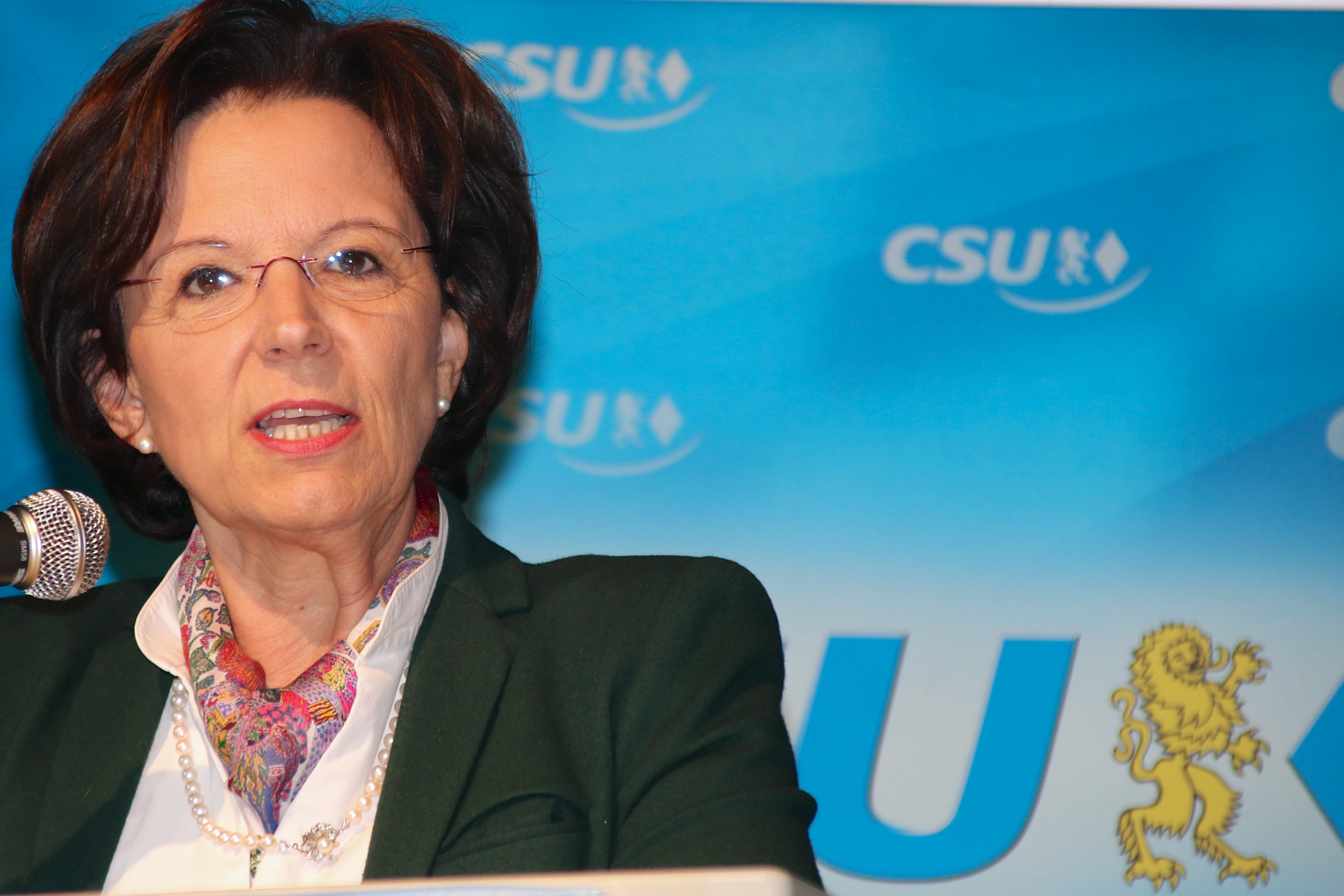 Bavaria's minister of social affairs Emilia Müller